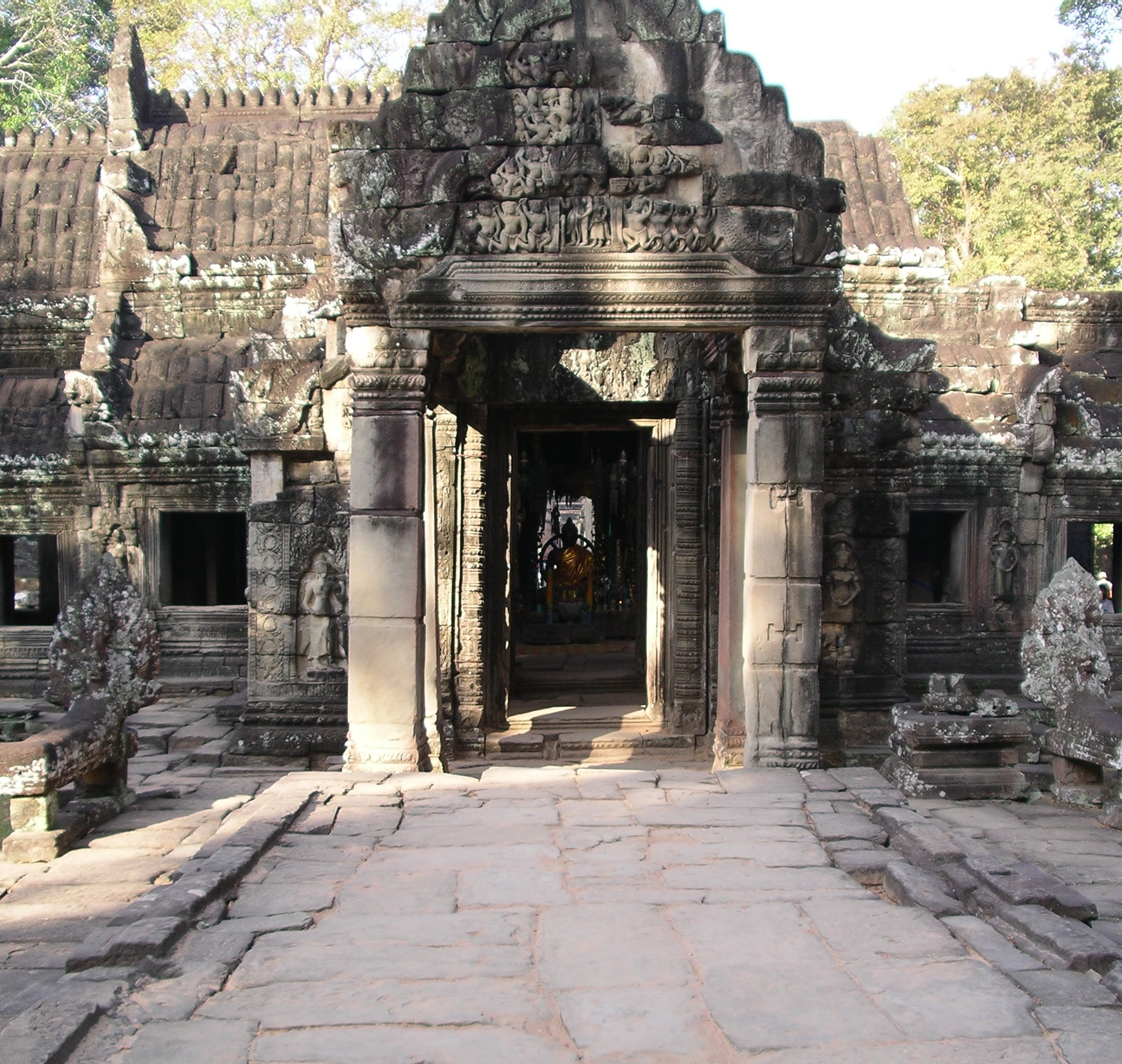 Banteay Kdey - external entrance of gopura E of 3rd enclosure